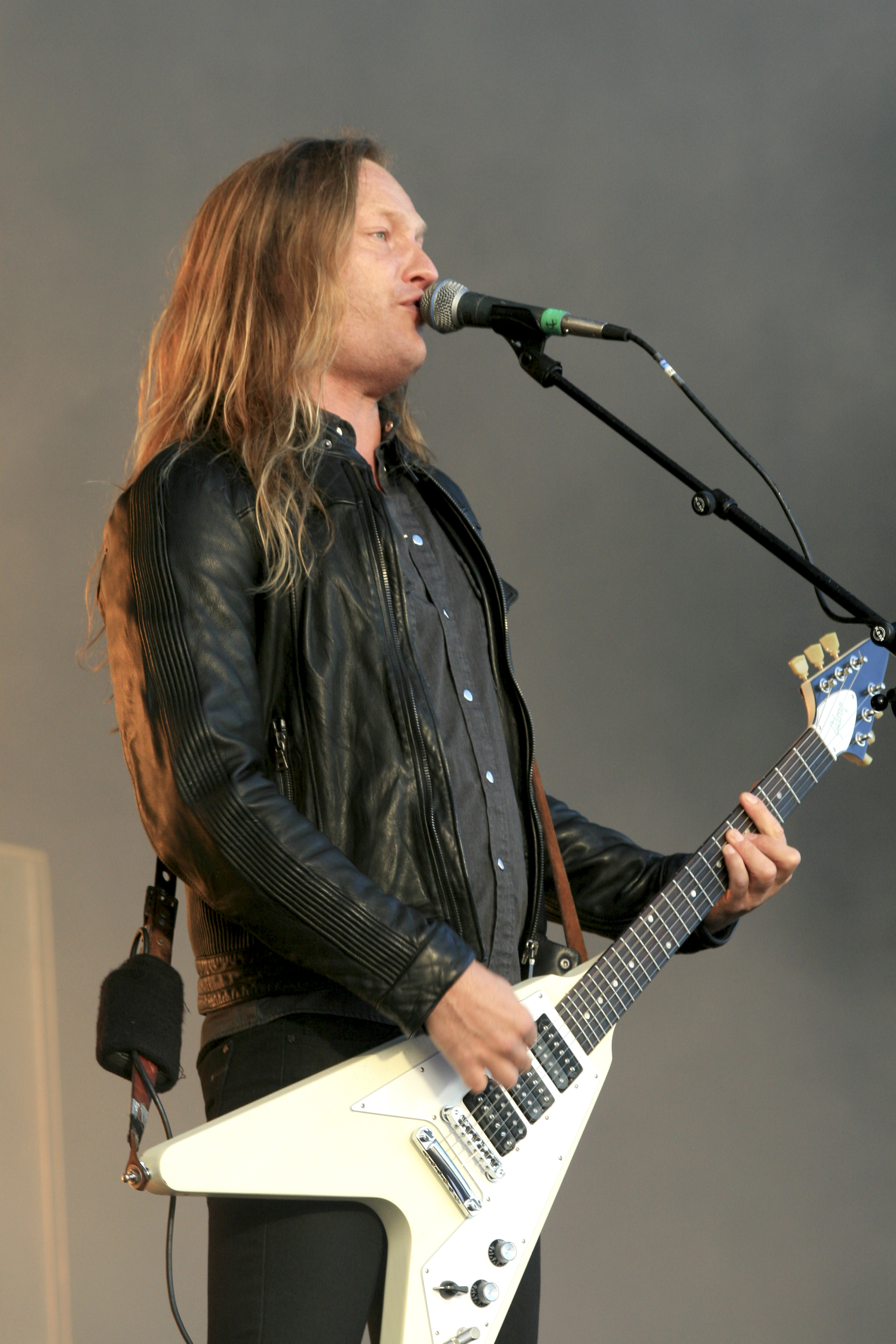 Jesper Binzer, leadsinger for D-A-D, at Grøn Koncert in Denmark.